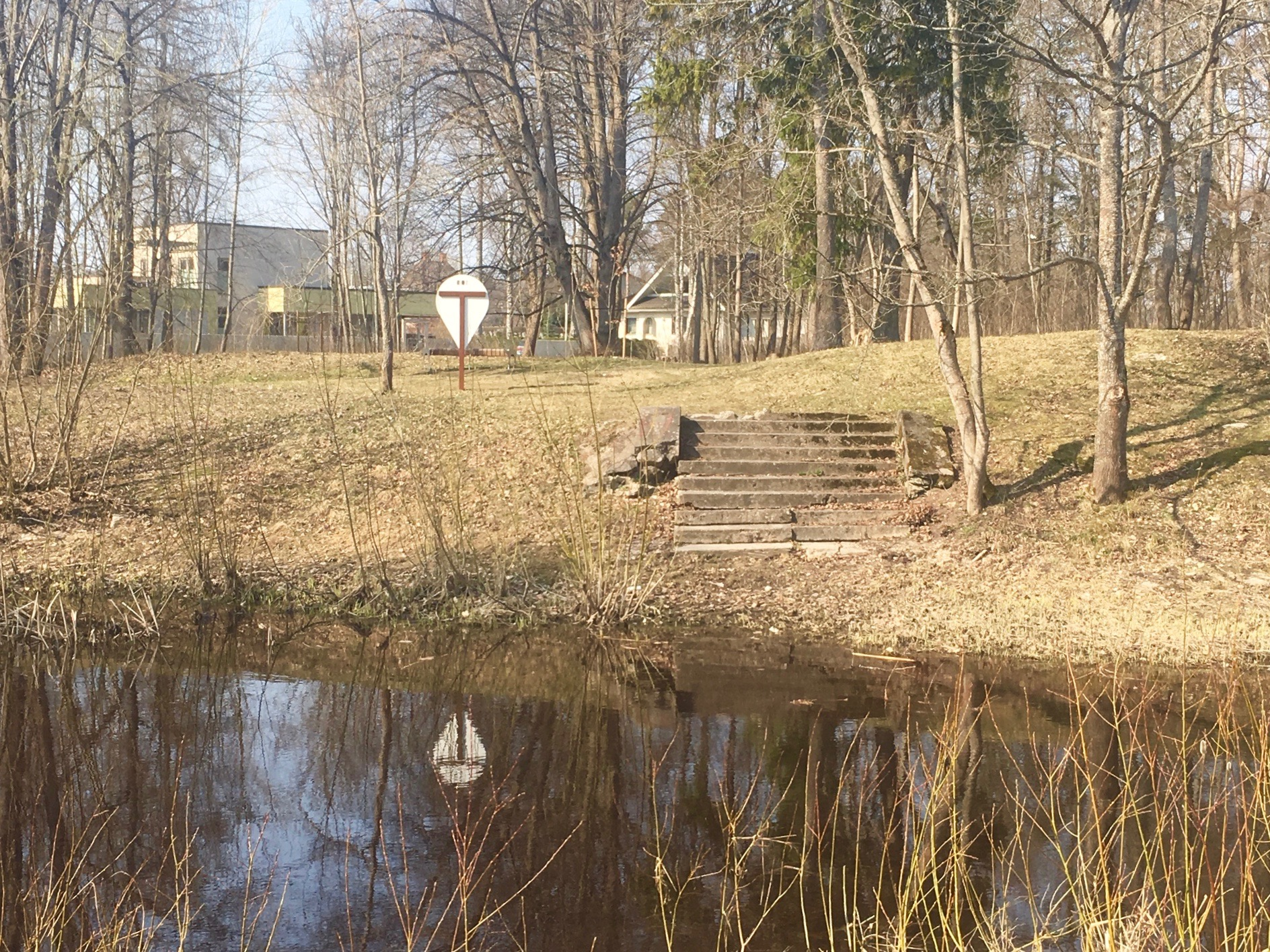 Ujumiskoht Punane Vähk